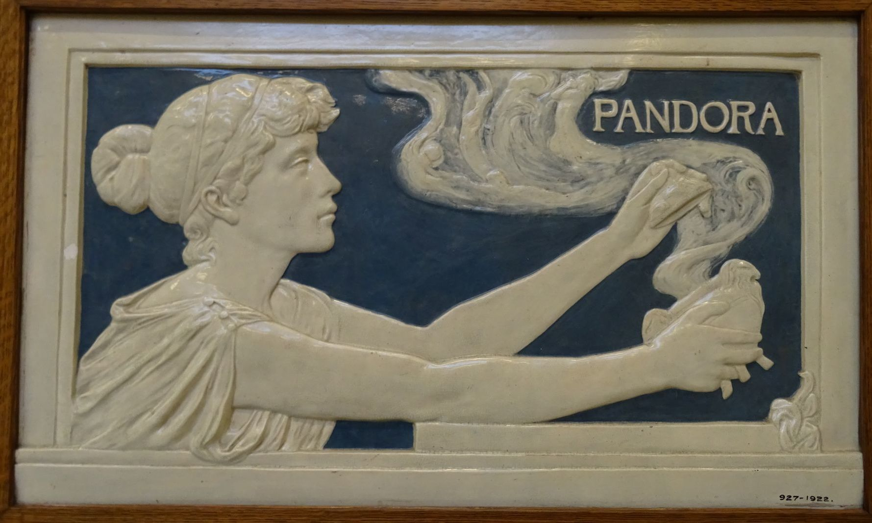 Pandora, collection Della Robbia Pottery, Williamson Art Gallery, Birkenhead, Merseyside, England.